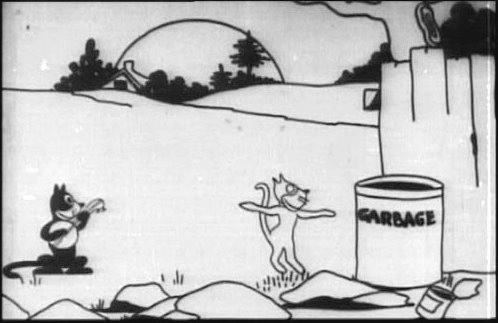 Felix the cat in his first cartoon Feline Follies (1919)